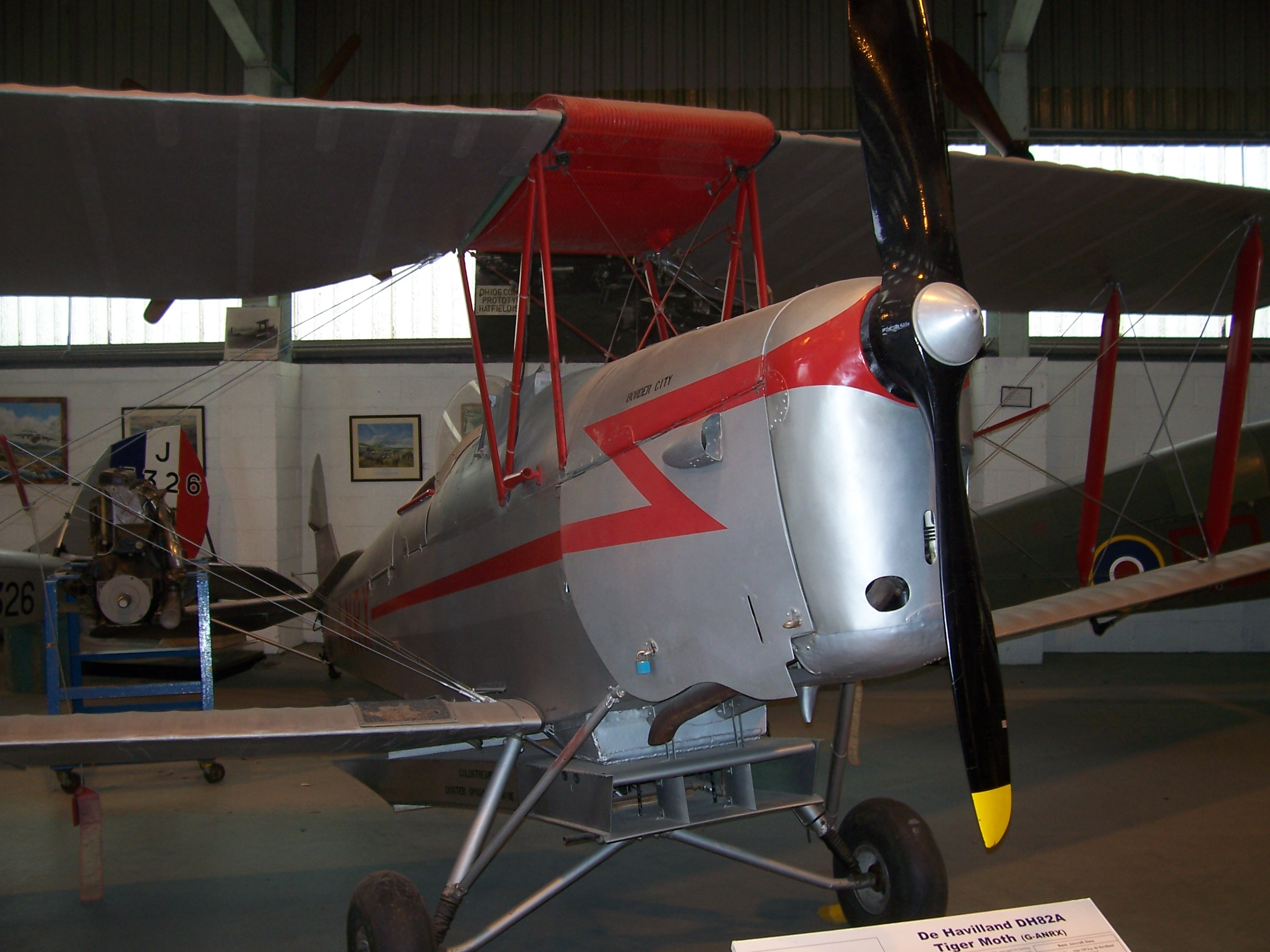 DH82 Tiger Moth G-ANRX at the de Havilland Aircraft Heritage Centre